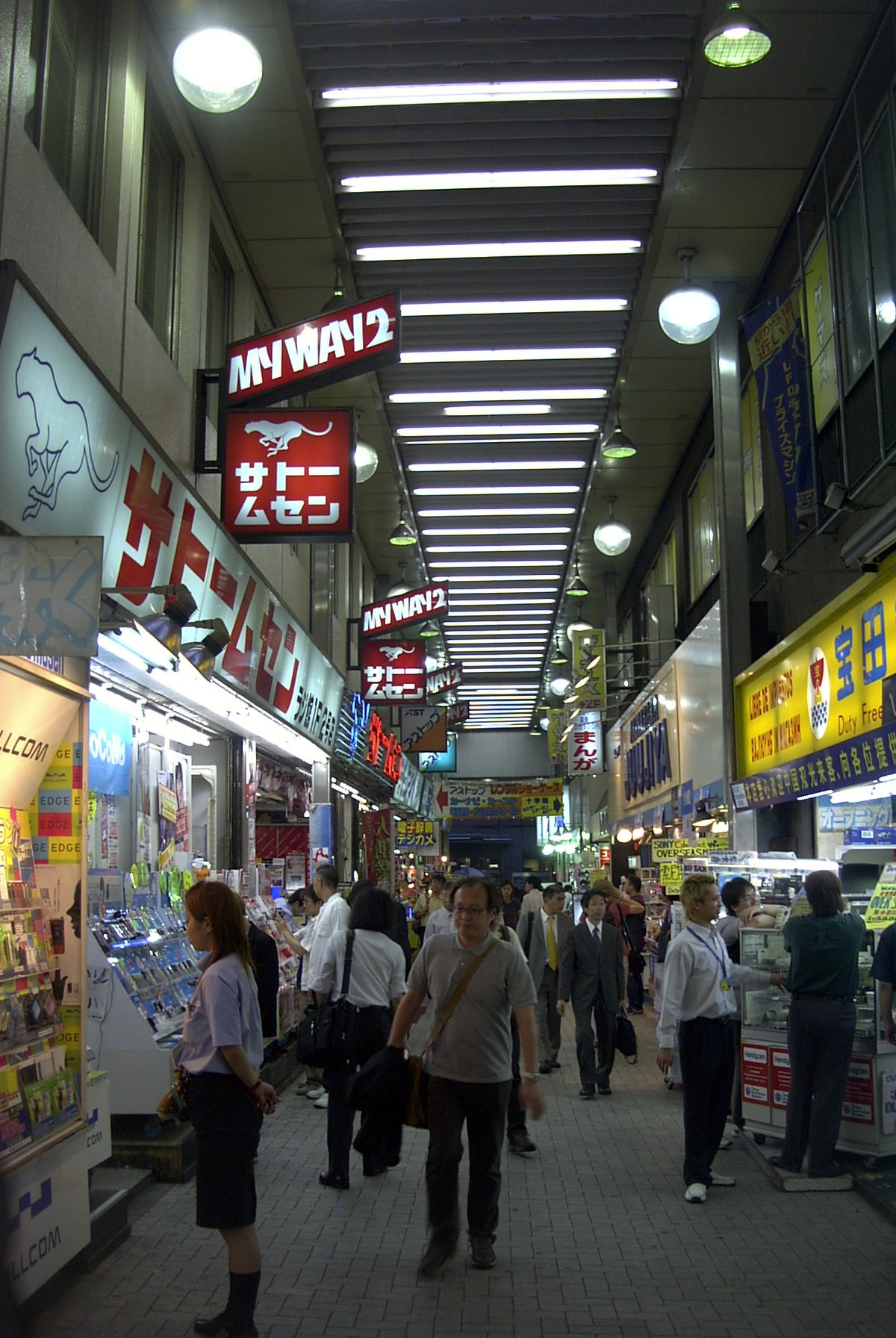 Akihabara in July, 2006.